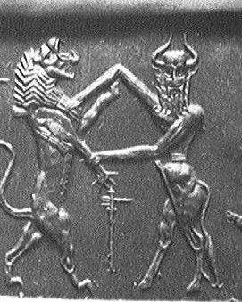 A cylinder seal impression detail-(on clay), Enkidu in battle.